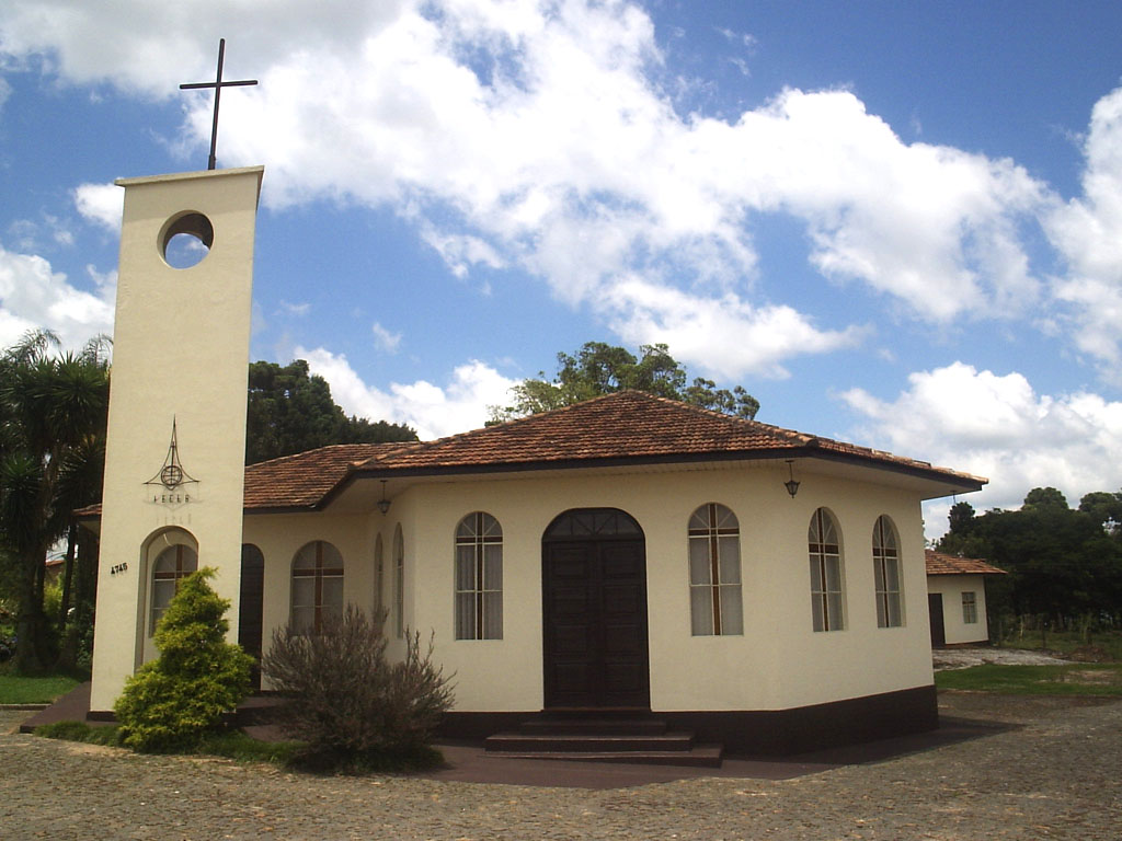 pt - Igreja Luterana IECLB em Carambeí, PR, Brasil. en - Lutheran church (IECLB) in Carambeí, PR, Brazil.